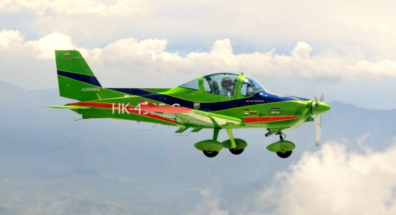 MY-103 registered HK-4995G (S/N 002) in flight during tests in Colombia in 2018